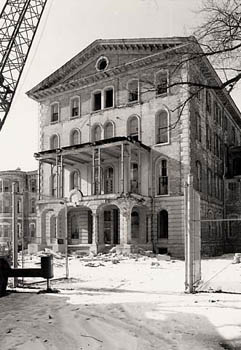 Main entrance of the Center Building of the Elgin State Hospital taken in early 1993, just before demolition. Note: The cast iron balcony of the third floor has already been removed.